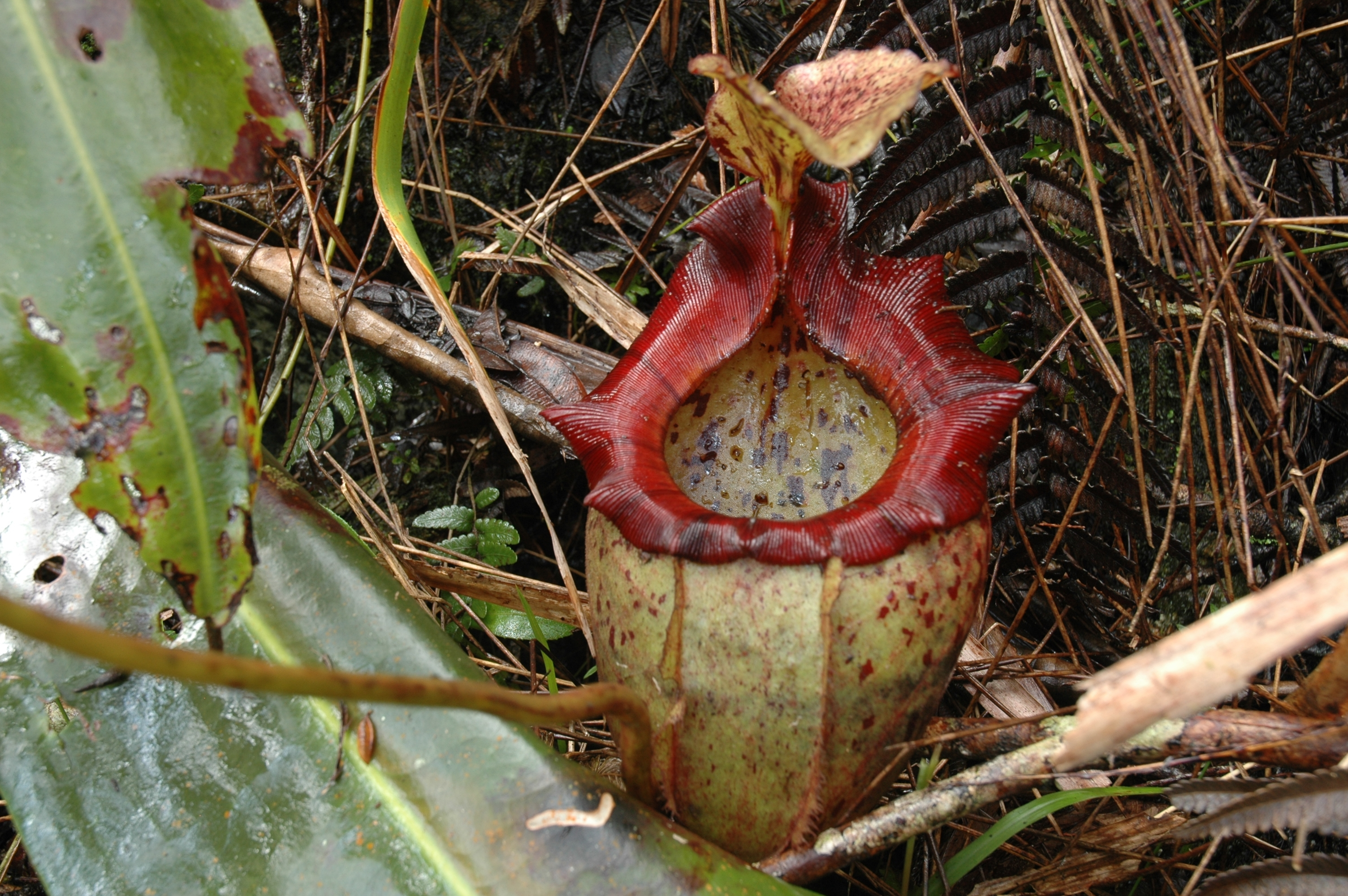 Nepenthes x alisaputrana Kinabalu by Jeremiah Harris